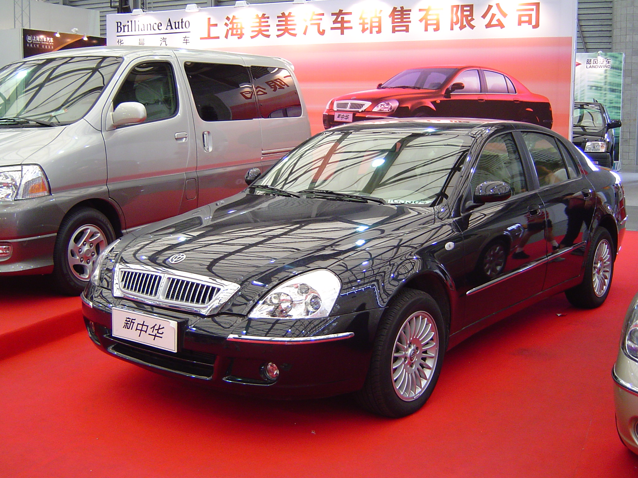 2004 Huachen/Zhonghua Zunchi (Brilliance BS6)